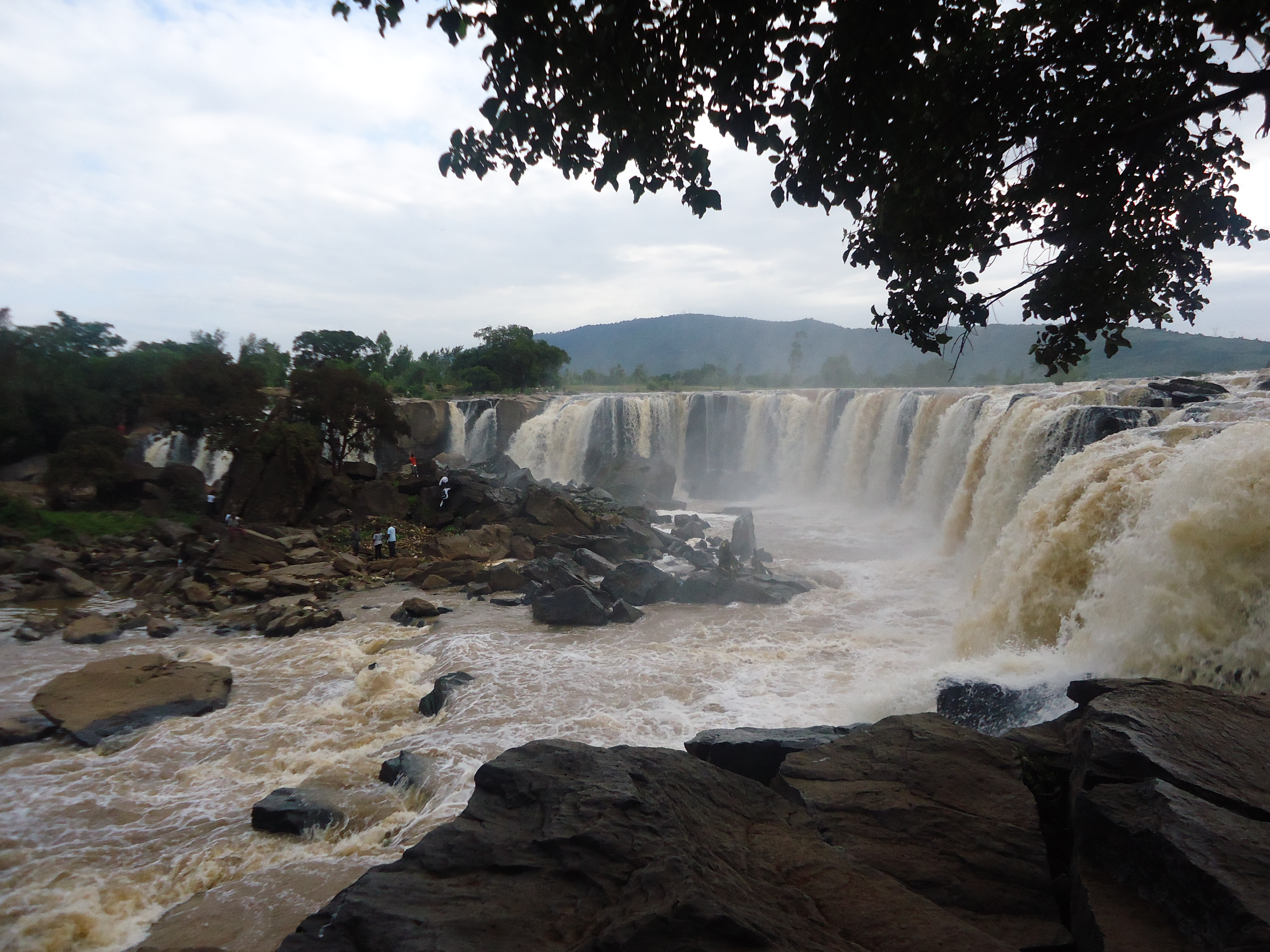 the fallsKiswahili: maporomoko ya maji huko Thika nchini Kenya